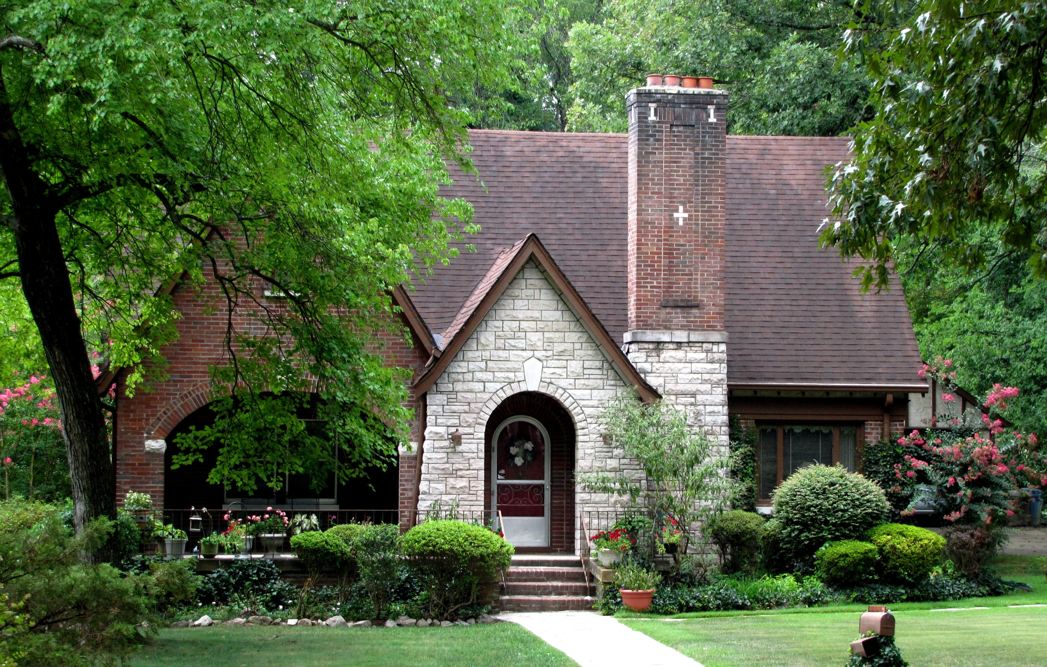 House at 3419 Southwood Drive in the Lindbergh Forest community of Knoxville, Tennessee, USA. Built circa 1929, this house is now listed as a contributing property within the NRHP-listed Lindbergh Forest Historic District.